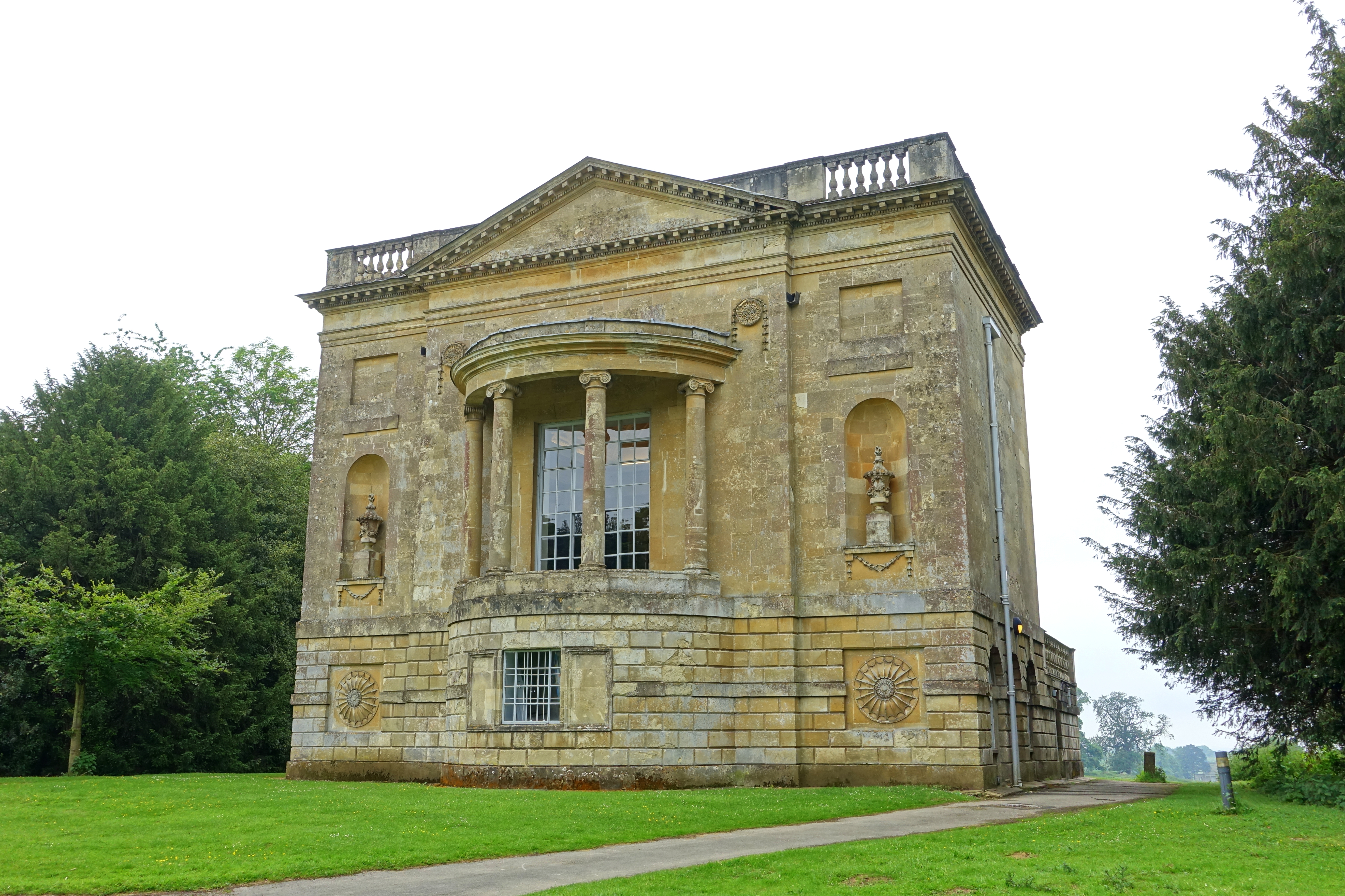 Queen's Temple, Stowe - Buckinghamshire, England.